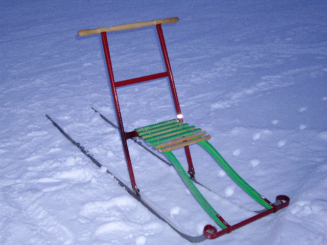 Norwegian sled photographed in the town of Roros